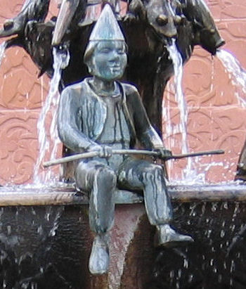 view of Enkenbach, Germany